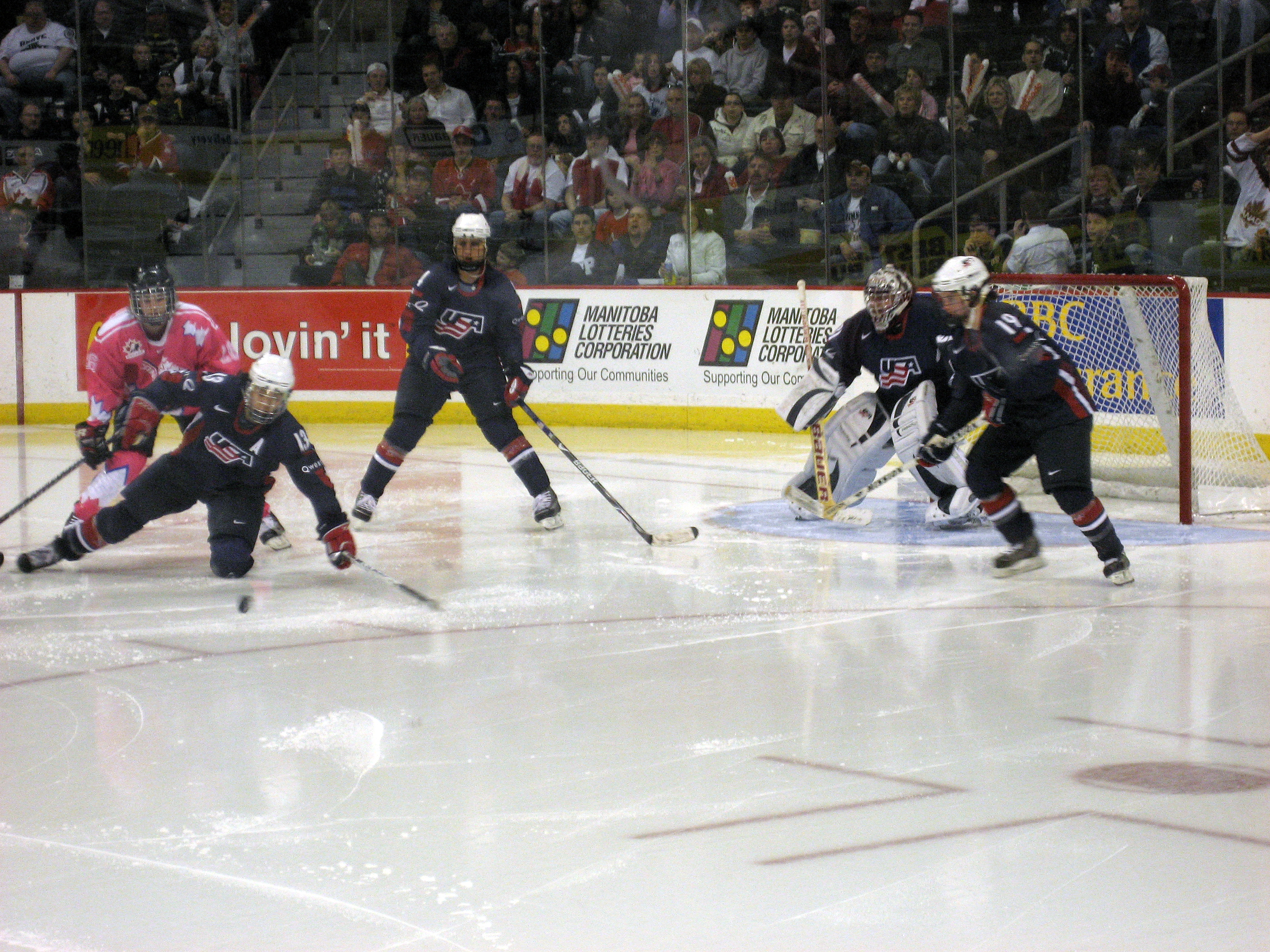 Women's World Championship Hockey, USA vs CAN